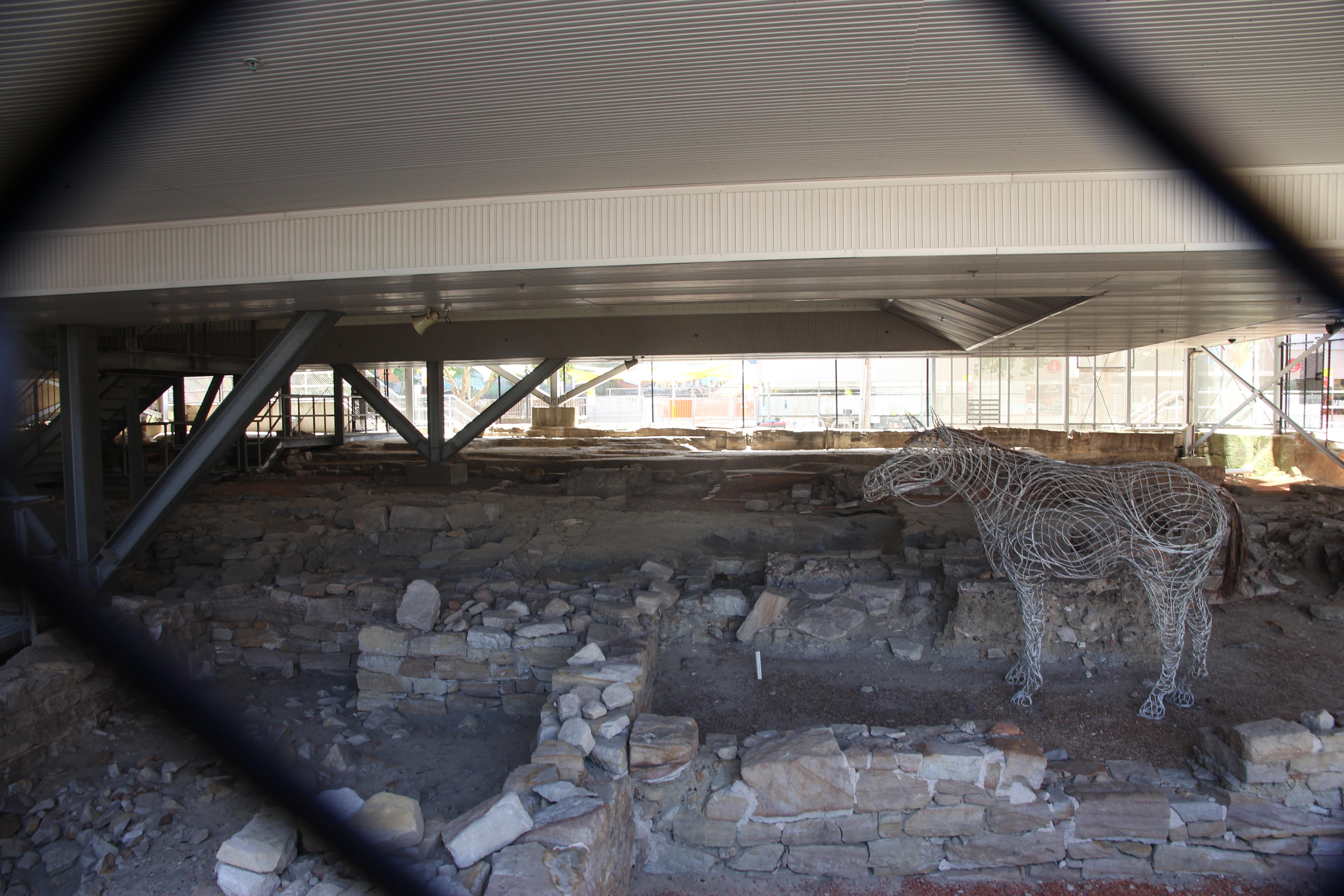 Big Dig Archaeological Site, also known as the Cumberland Street Archaeological Site located between Cumberland and Gloucester Streets in The Rocks in the City of Sydney, New South Wales.Located above the archeoloiral site is the Youth Hostels Australia Sydney Harbour premises. The ground floor level of the hostels serves as a void to protect the big site; with the hostel rising three stories above the big site.